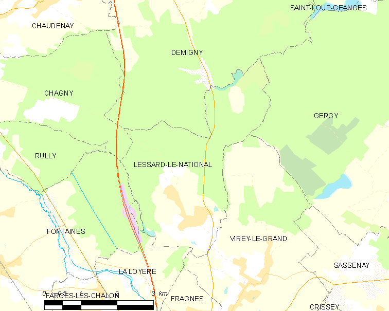 Map of French municipality